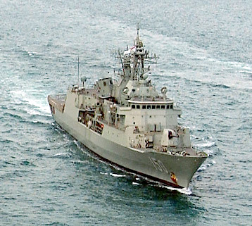 HMAS Anzac (FFH 150) conducting Maritime Interdiction Operations (MIO) in the Central Command Area of Responsibility in support of Operation Enduring Freedom. U.S. Navy photo by Photographer’s Mate 1st Class Brien Aho. (RELEASED)